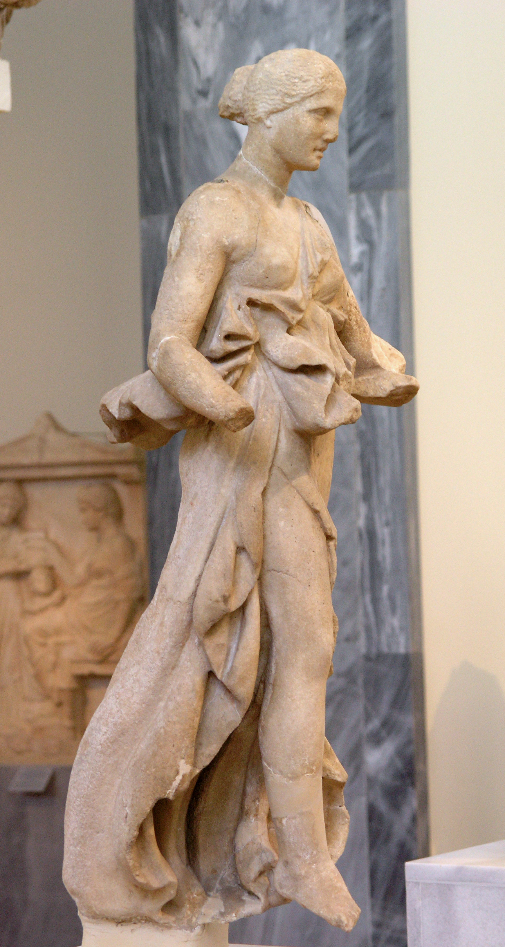 Statuette of Nike. Parian marble. Found at Epidauros. The figur was the left akroterion on the west pediment of the temple of Artemis. Nike flies forward advancing her right leg. The wings were made of a separate piece of marble and set in the sockets preserverd in the shoulders of the figure. Late 4th c. BC.